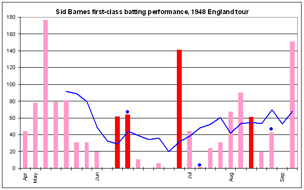 FC batting chart for Sid Barnes during the 1948 tour of England. Blue line is an average for five most recent innings, blue dots are not outs. Bars are runs scored. Pink for FC, red for Tests